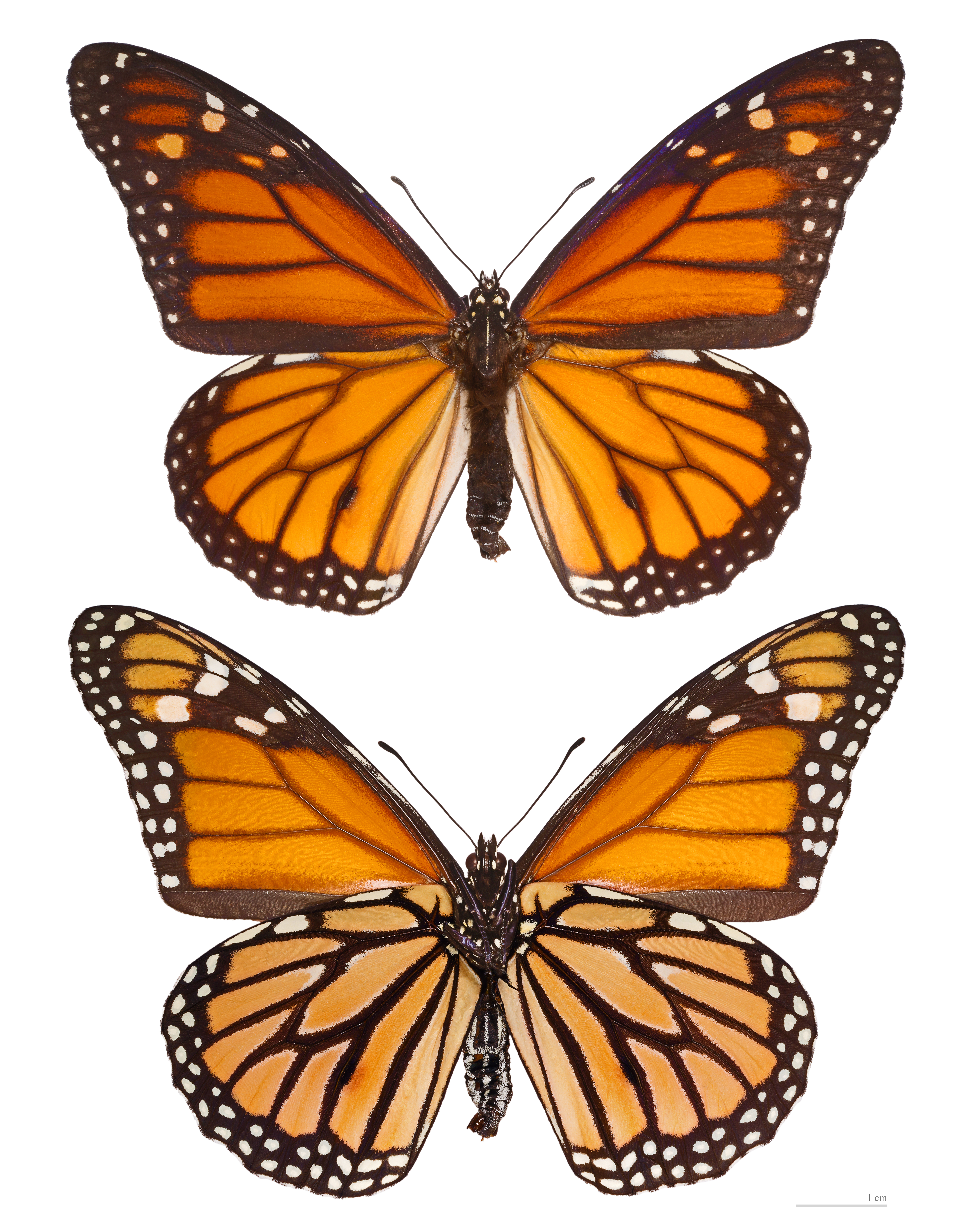 ♂ - Two views of same specimen Locality: Lac Valmont, Quebec, Canada.